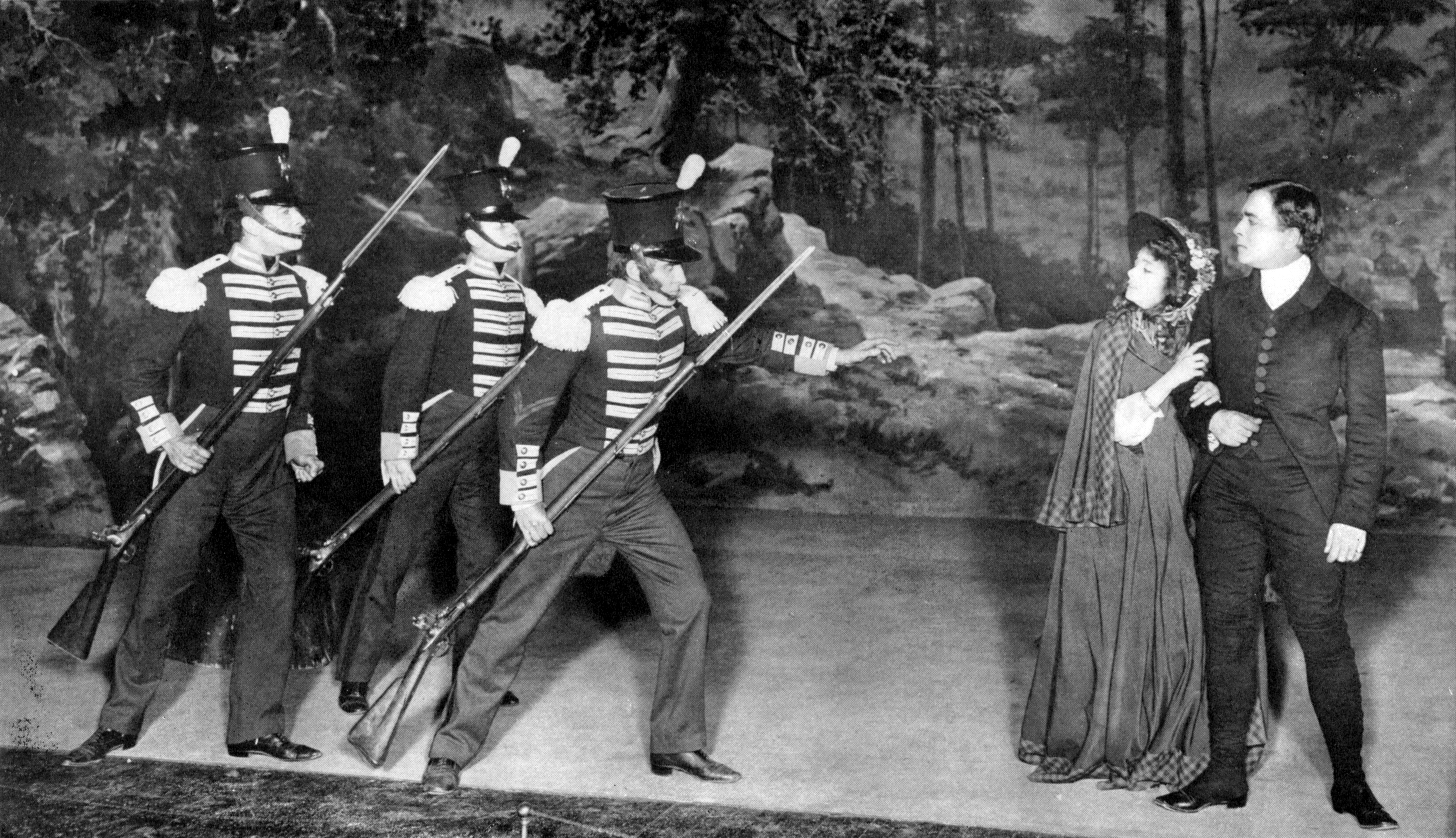 Photograph of the Broadway production of The Little Minister, starring Maude Adams and Robert Edeson Caption reads as follows:"The Little Minister" (Robert Edeson) and Babbie (Miss Maude Adams) are stopped and questioned by soldiers.